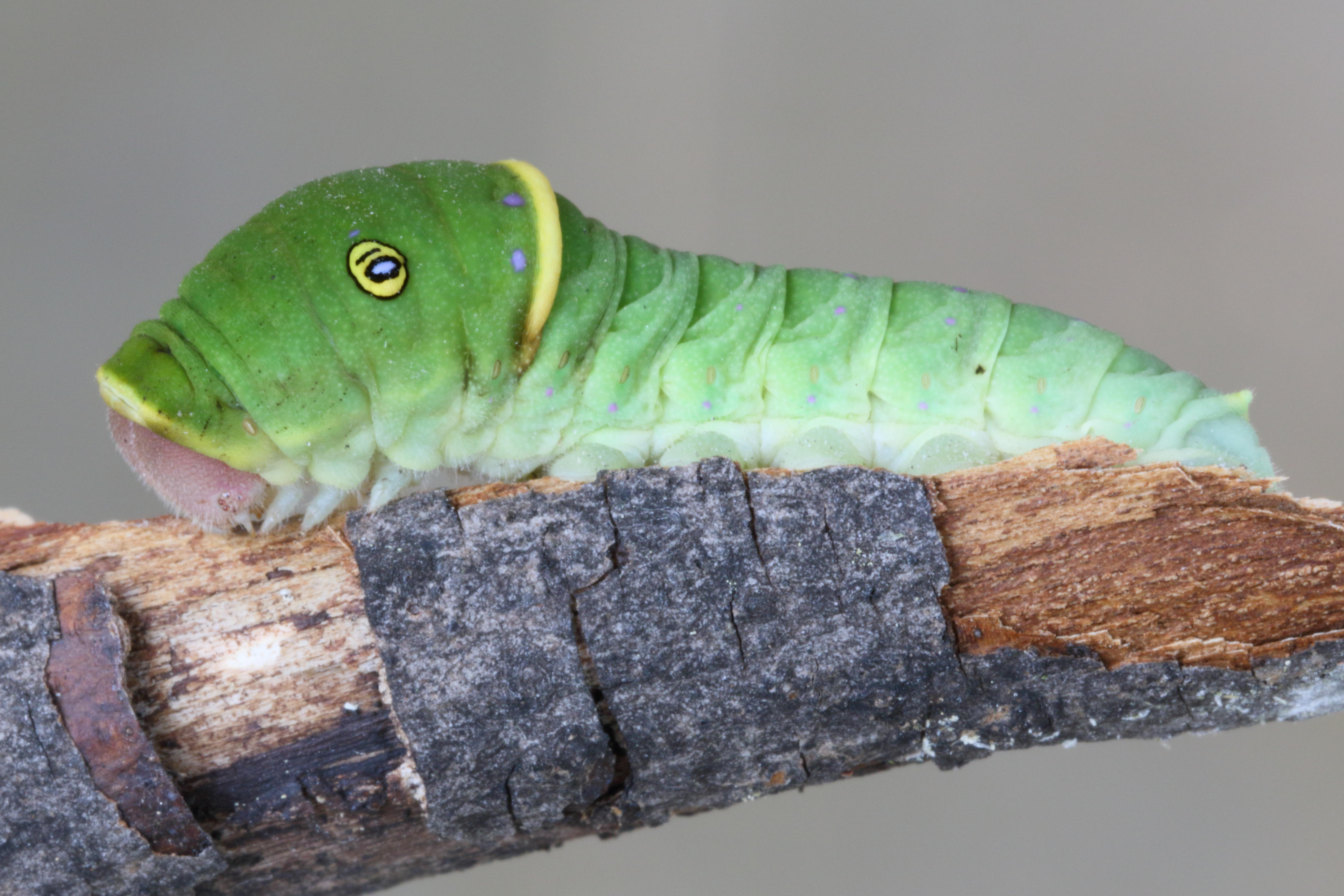 Canadian tiger swallowtail caterpillar